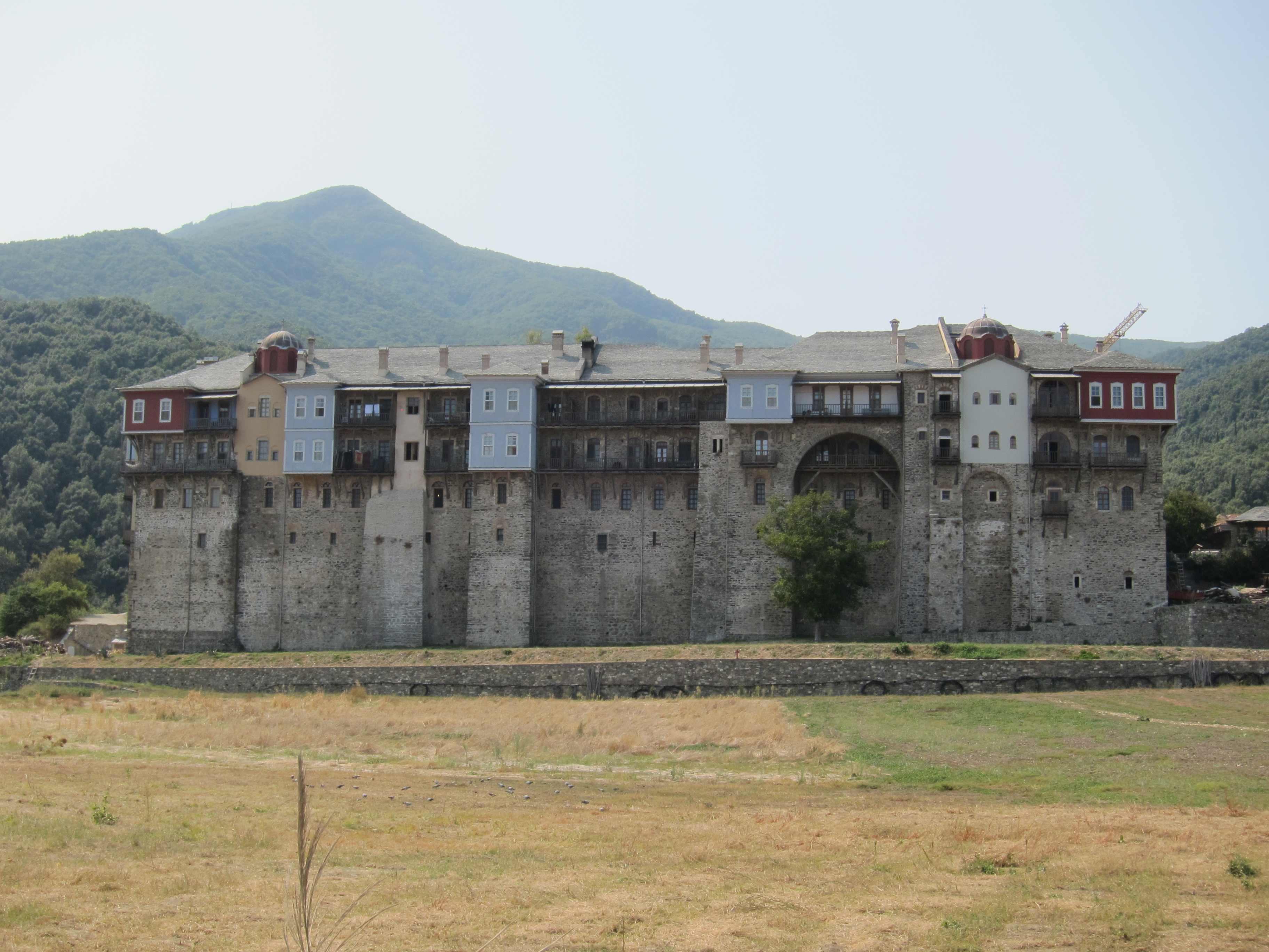 Iviron monastery seen from the shore